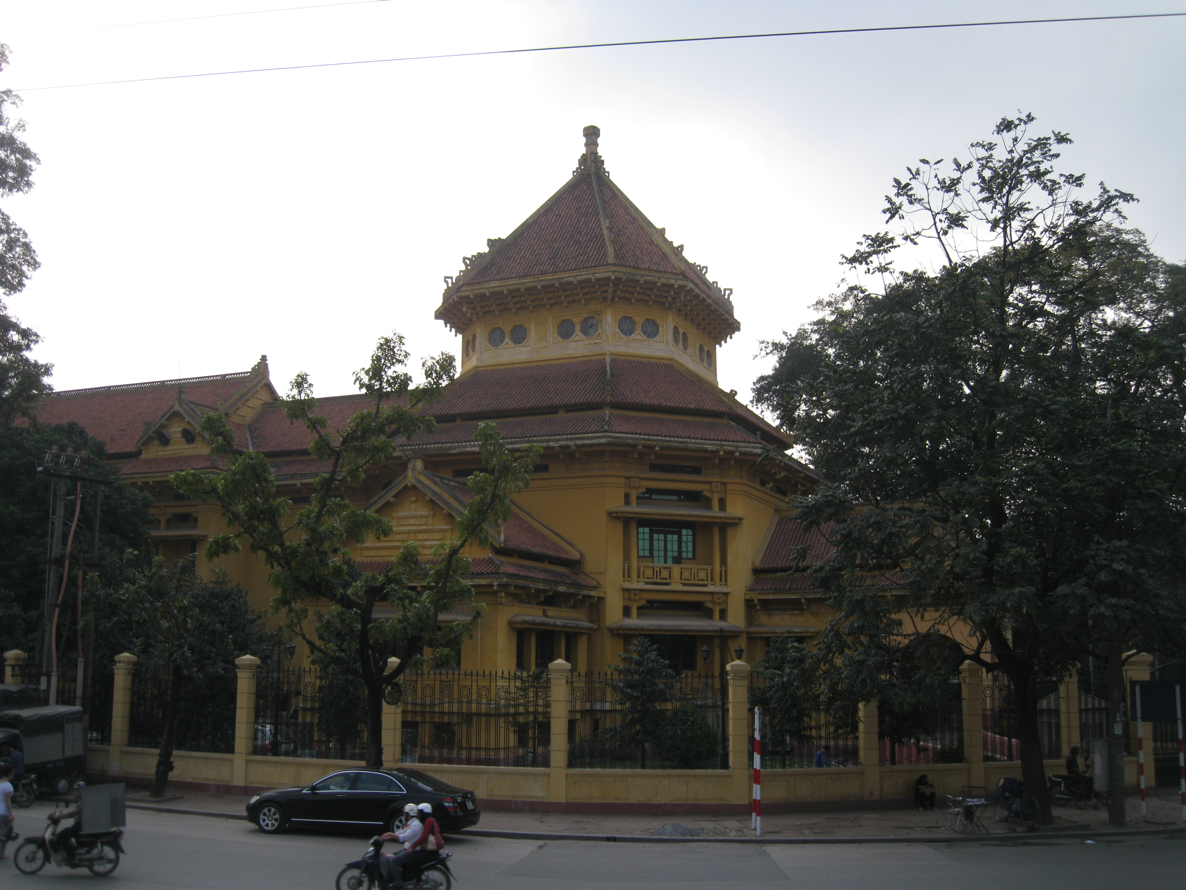 National Museum of Vietnamese History, Hanoi.